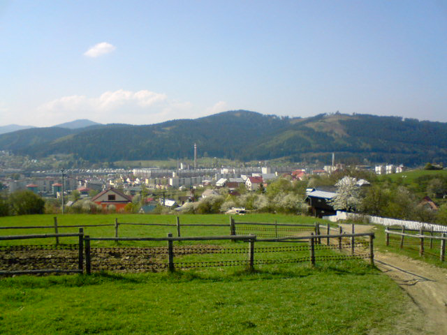 Kysucké Nové Mesto